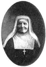 Maria Marta Chambon